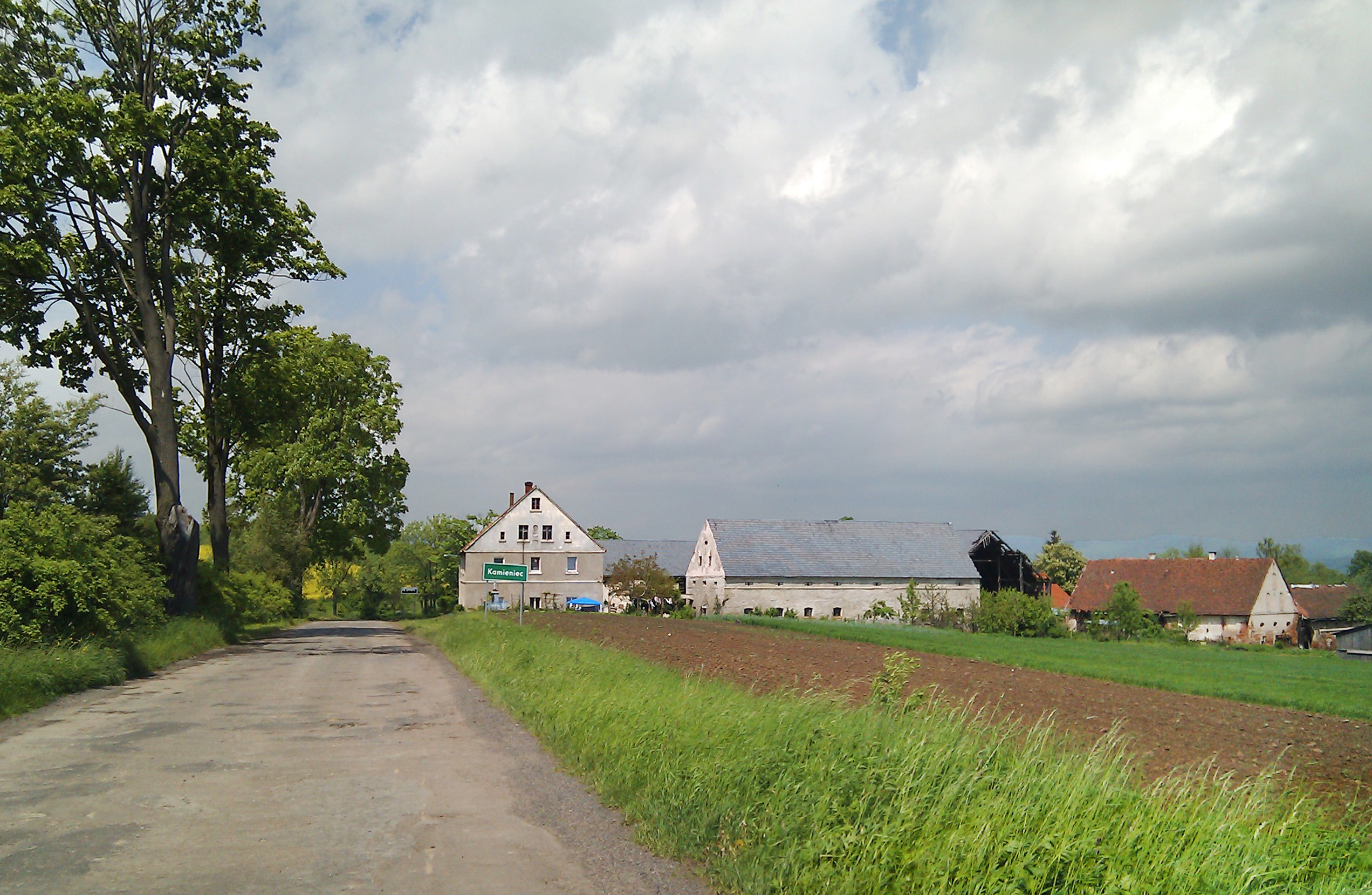 Kamieniec, Lower Silesia.